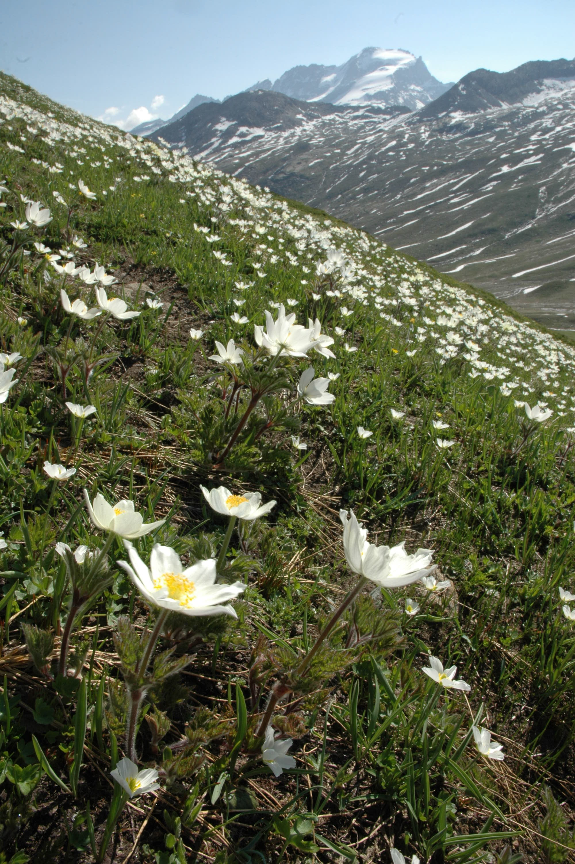 Fotografia realizzata nel contesto del progetto LIFE PastorAlp